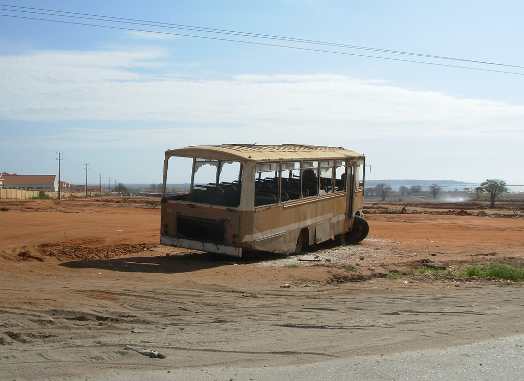 Abandoned bus situated roatside in Angola